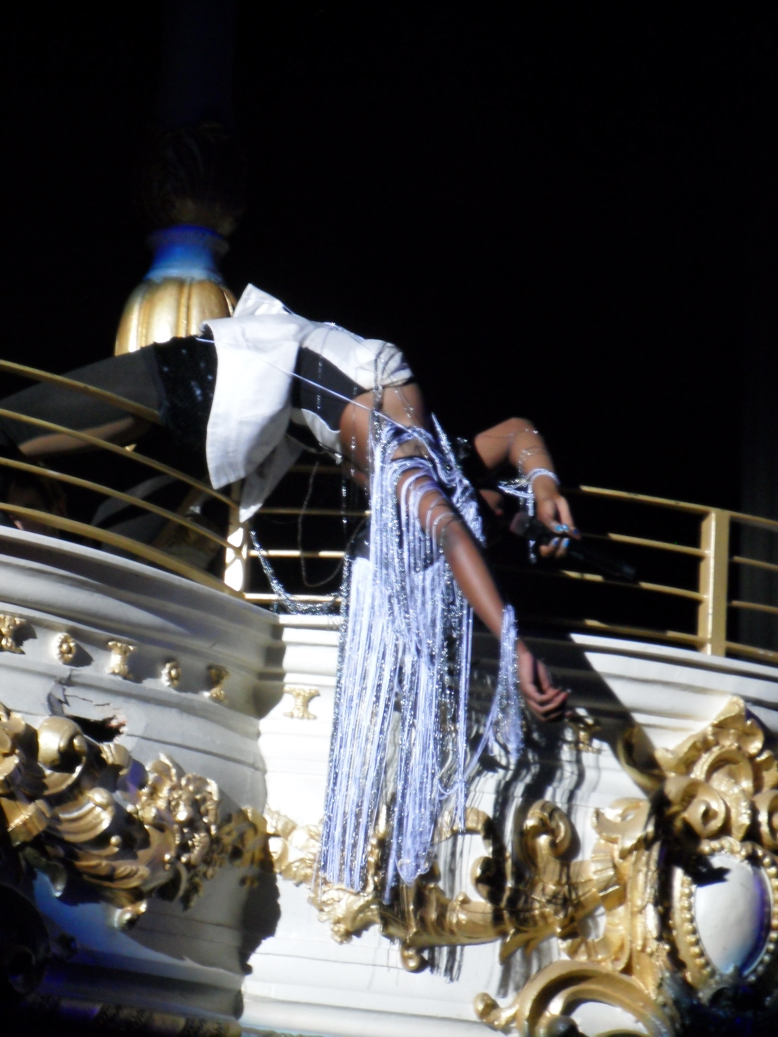 The Noisettes performing Atticus at O2 Academy Bournemouth, Feb 2010